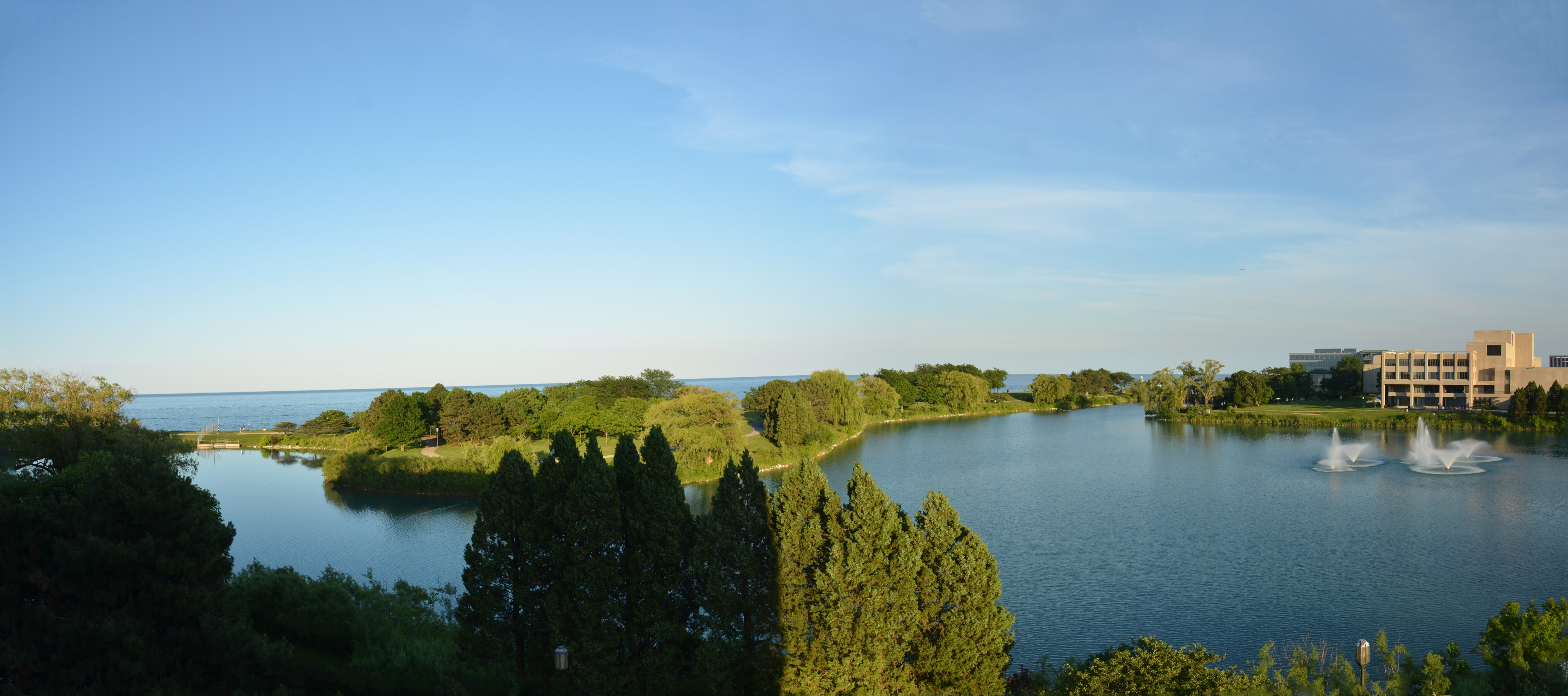 A summer view of Lake Michigen from 3rd floor of Allen Center